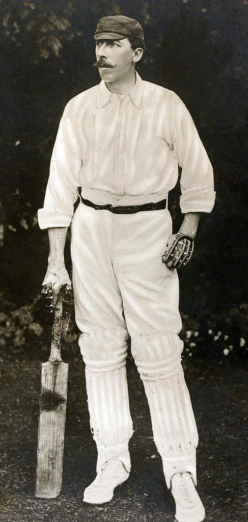 Sport, Cricket, Circa 1890, A picture of William Gunn who played for Nottinghamshire and England